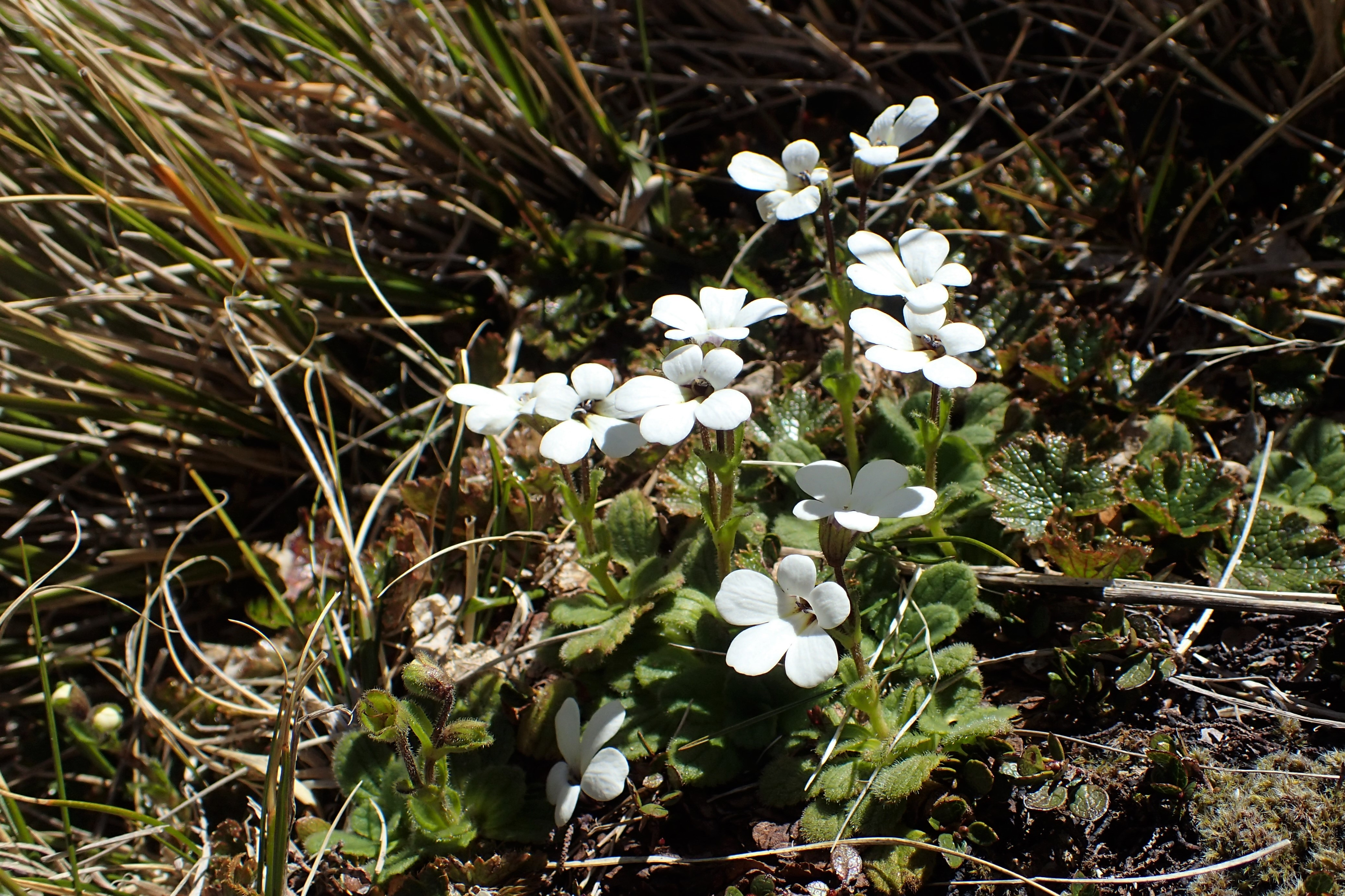 Ourisia simpsonii on Lewis Top near Lewis Pass, Canterbury (New Zealand)